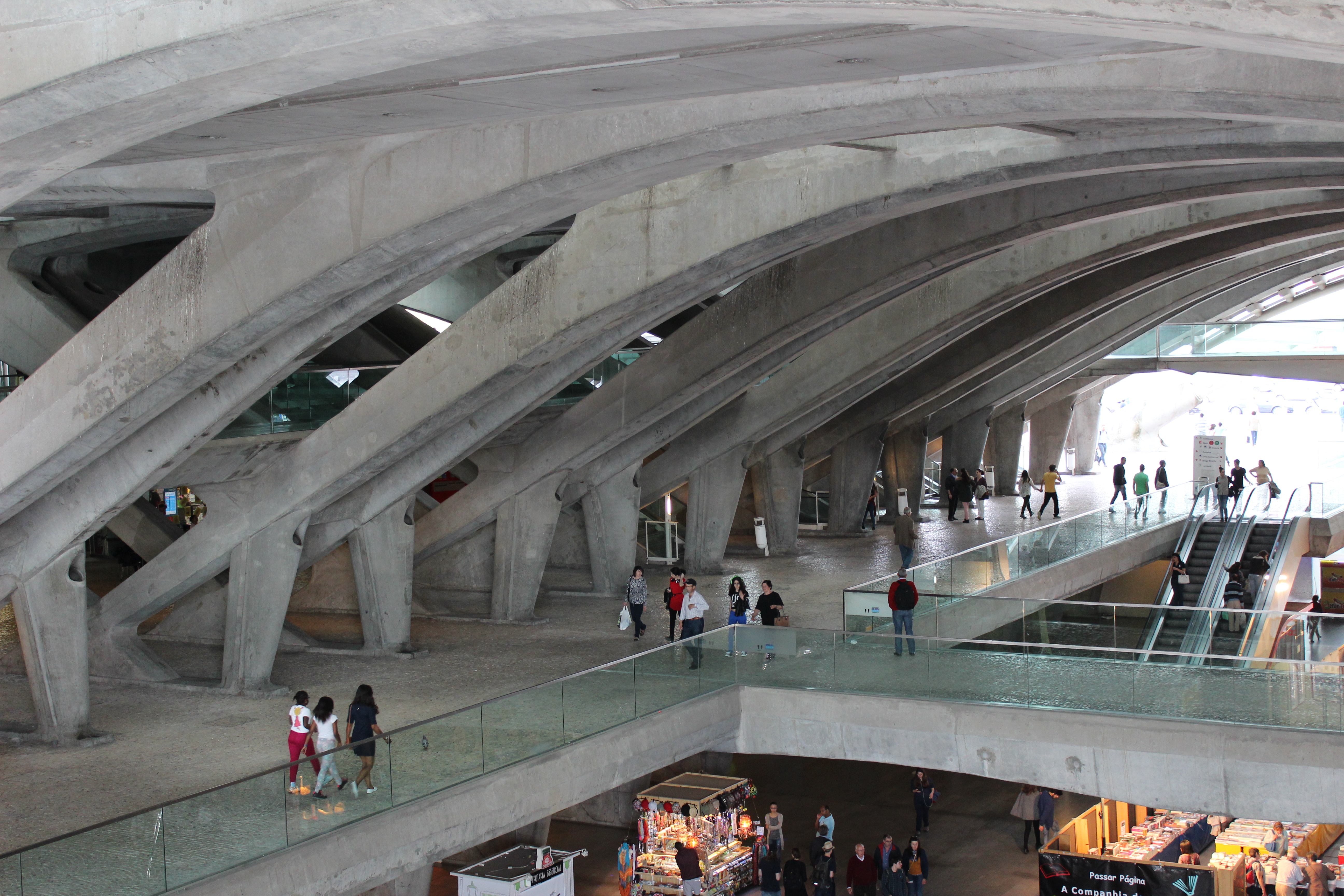 Gare do Oriente train station, Lisbon, Portugal